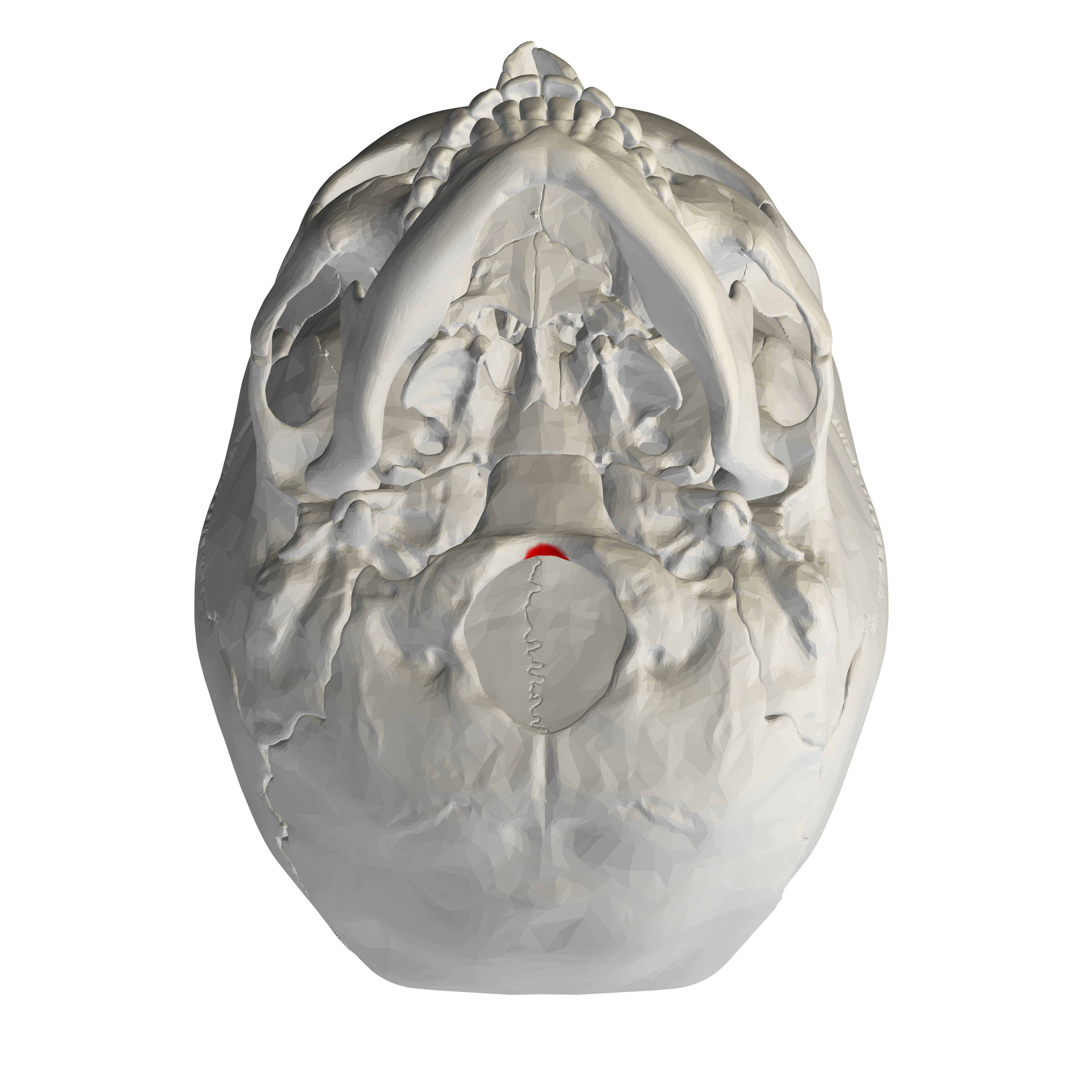 Basion (shown in red)